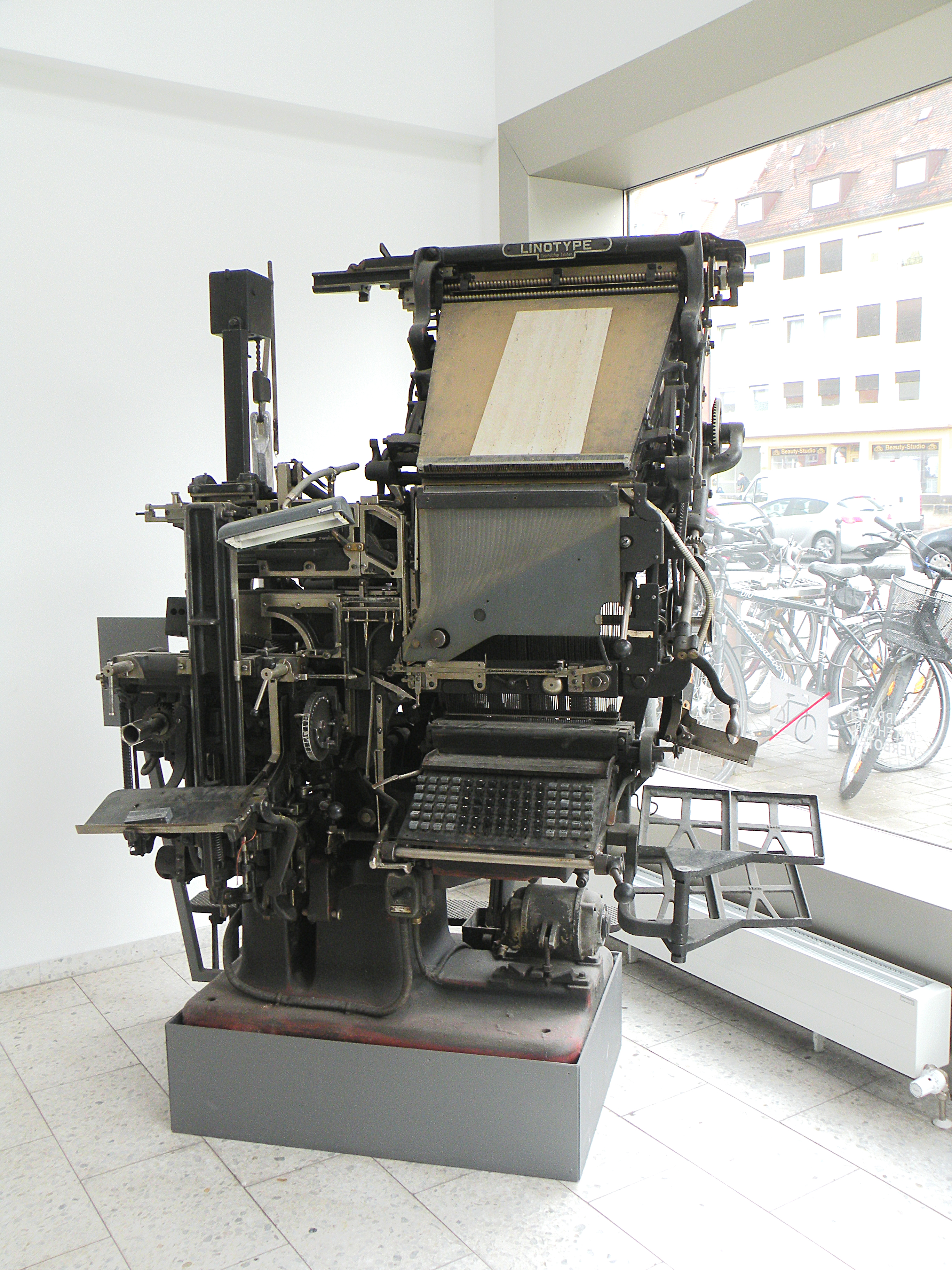 Linotype machine